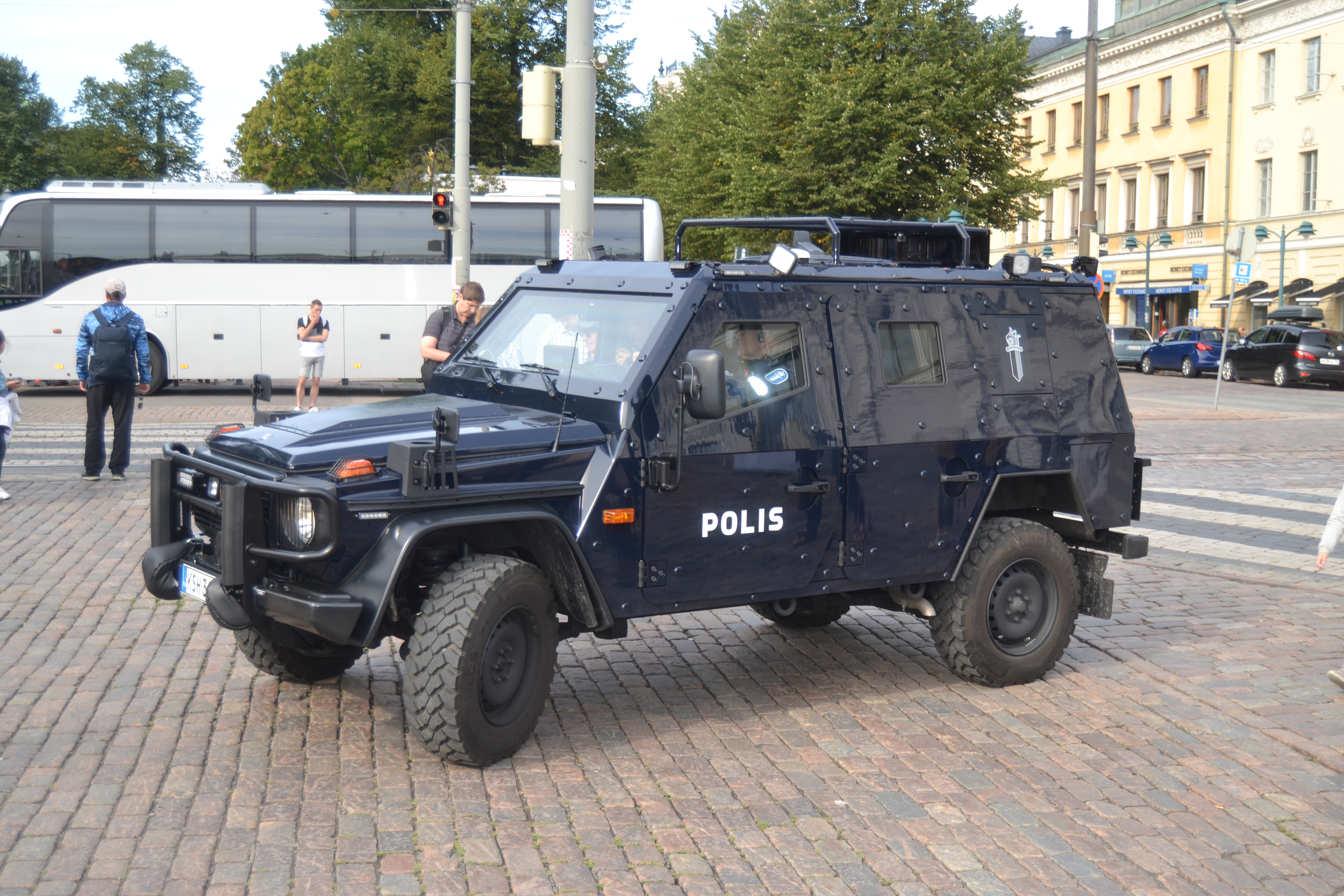 Mercedes-Benz G280 CDI LAPV 5.4 armoured police car in Helsinki